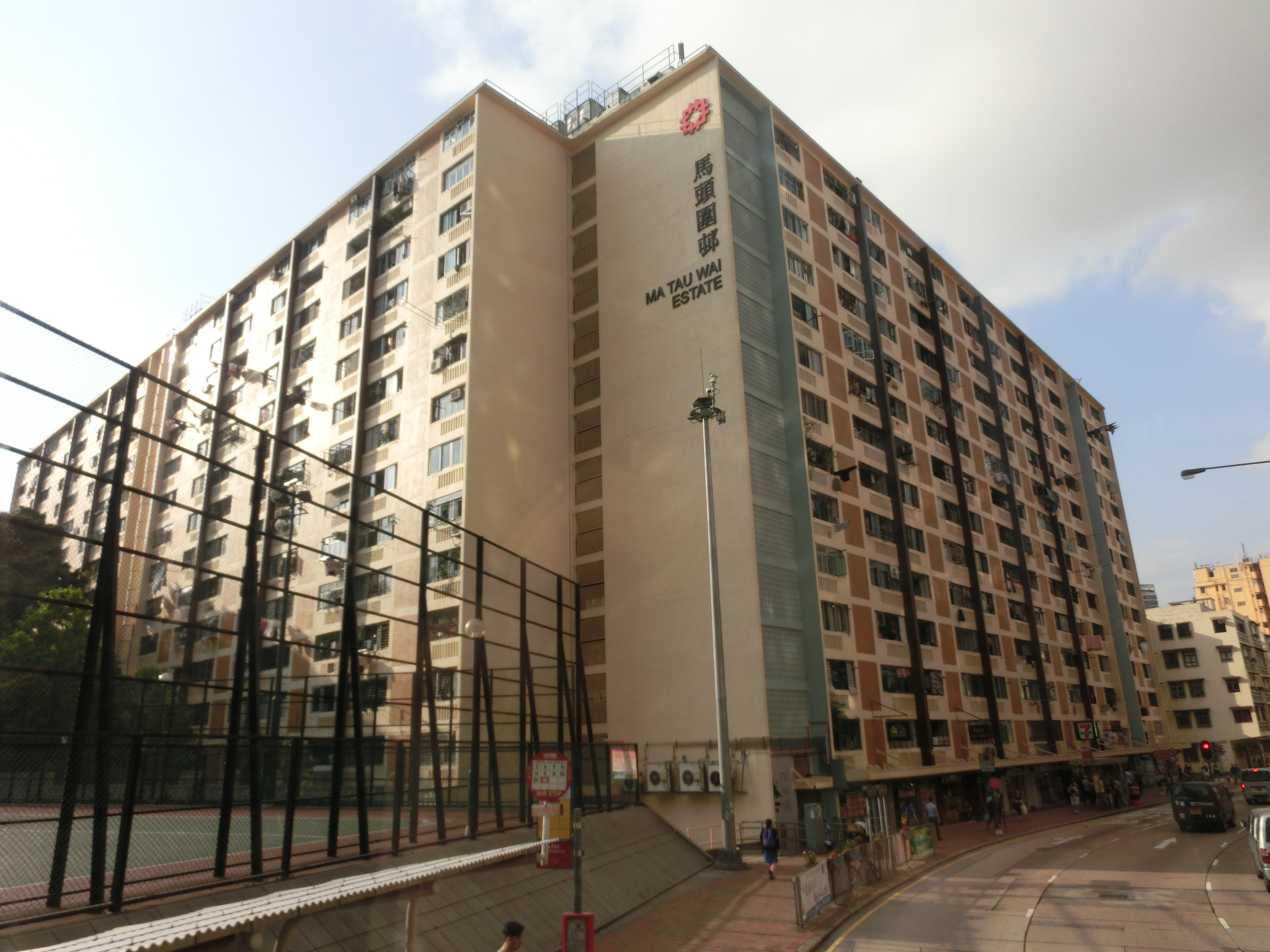 馬頭涌道, Ma Tau Chung Road, Hong Kong